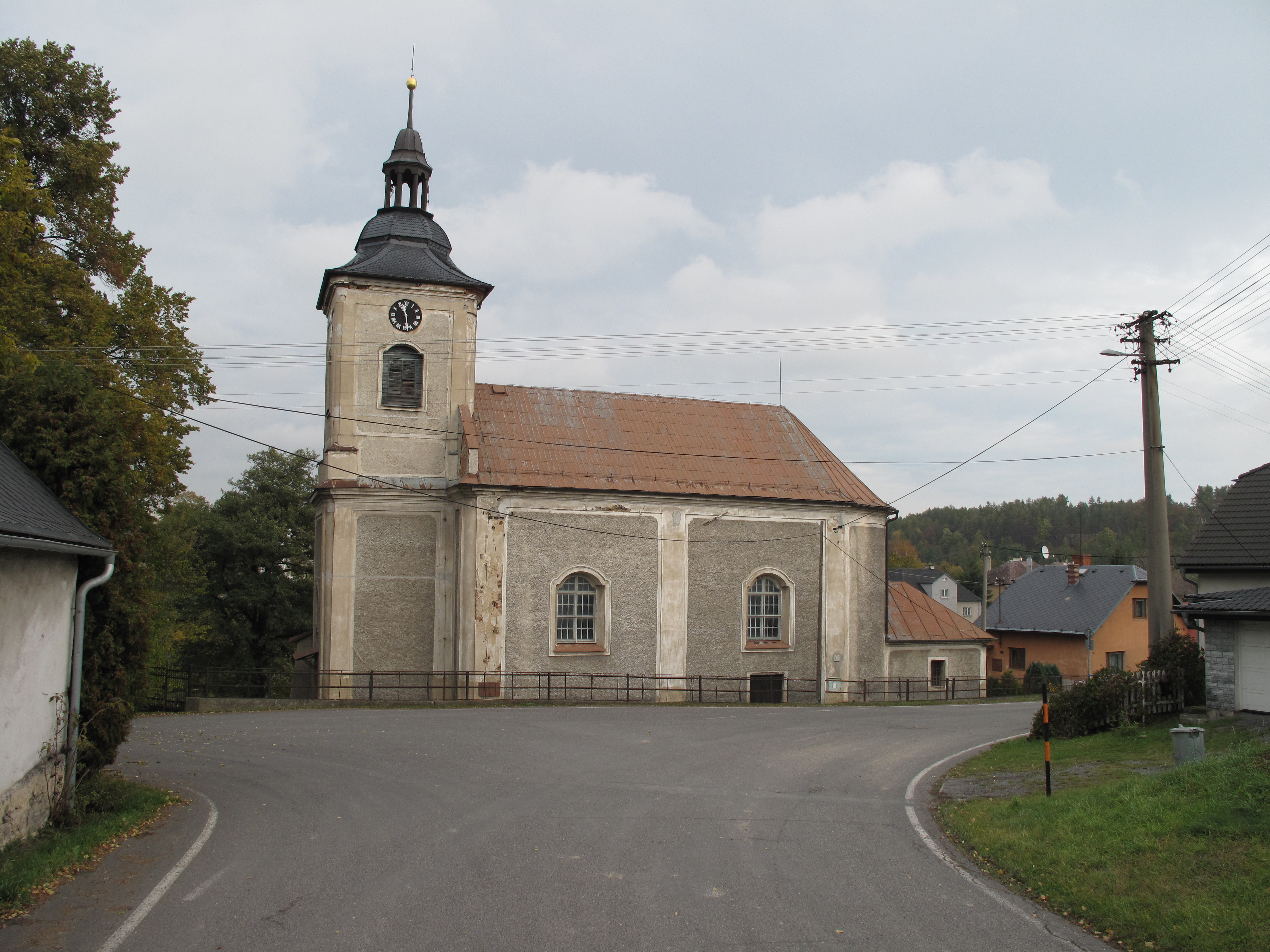 Church of Saint Michael in Bohdanovice, Opava District, Czech Republic.